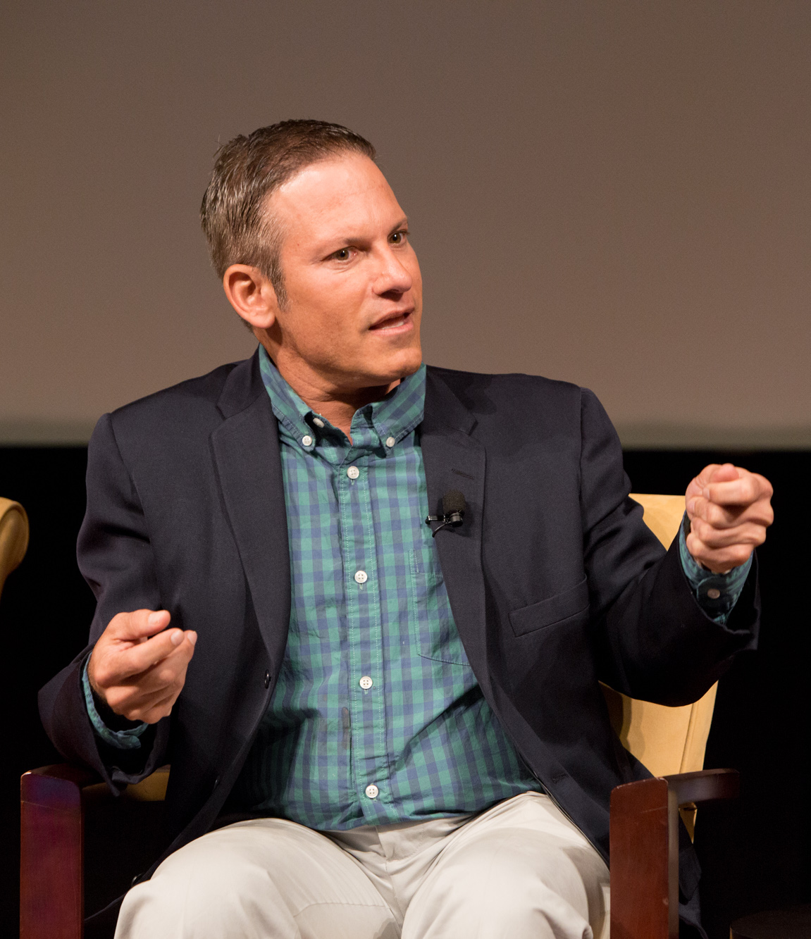 First Ladies; Carl Sferrazza Anthony, Author and Presidential Family Historian, discusses First Ladies